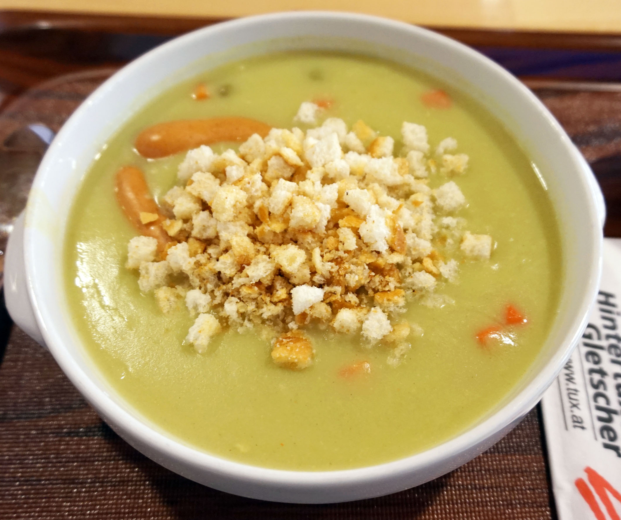 Pea soup with sausage on a restaurant in Sommerbergalm, Hintertux, Austria. This photograph was taken with a Sony Alpha a5000.